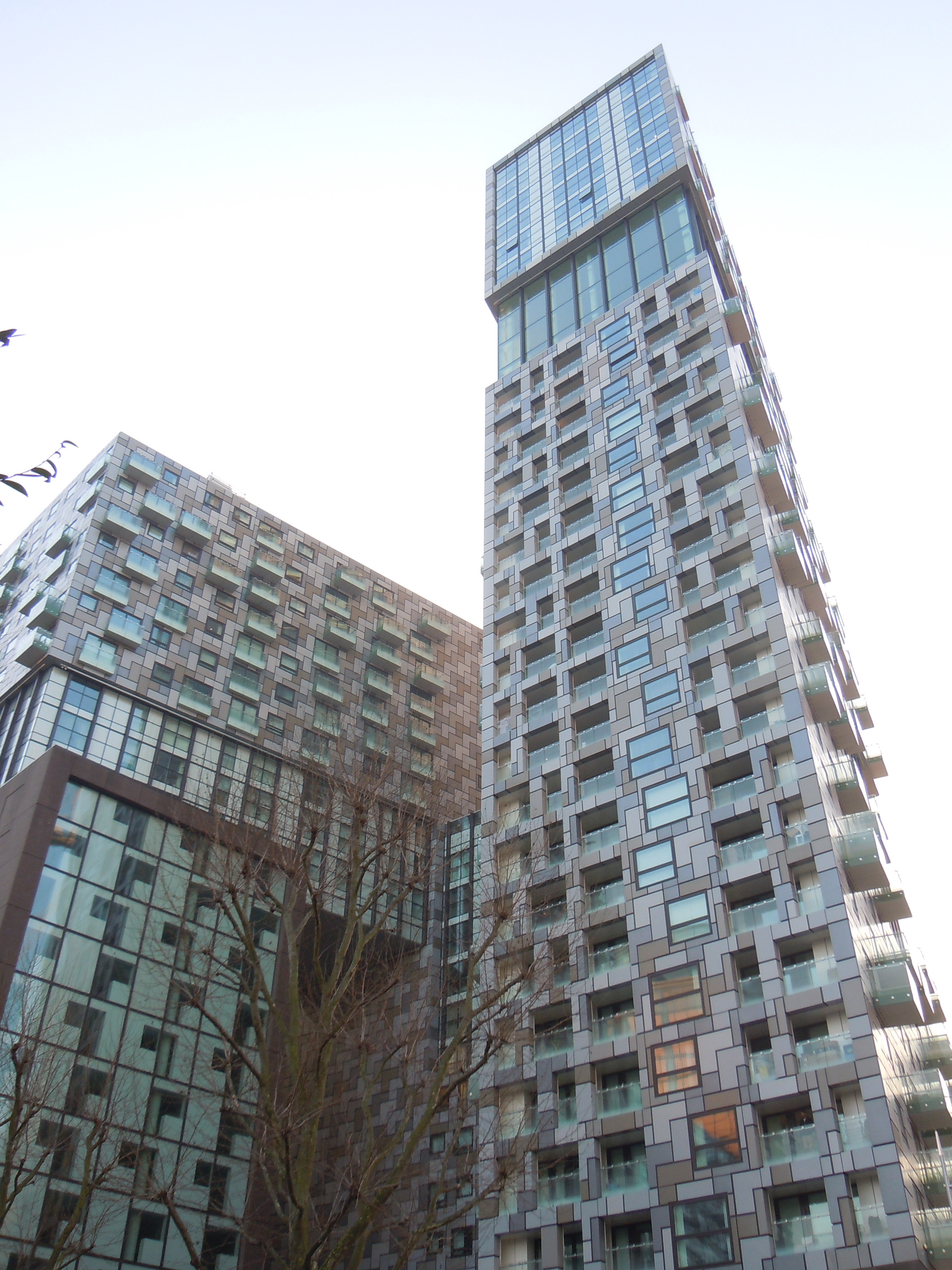 Lincoln Plaza in Canary Wharf.